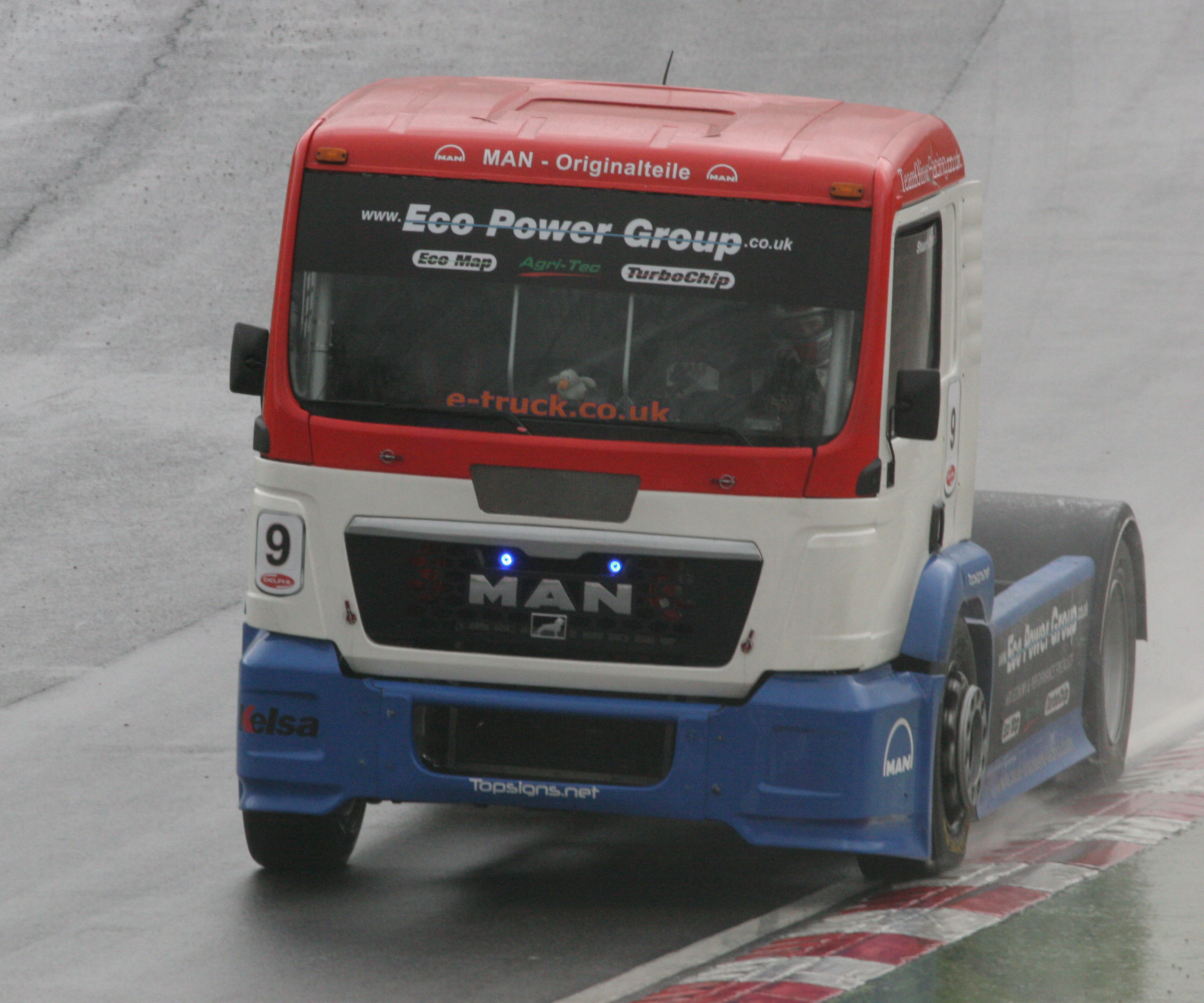 Truck racing